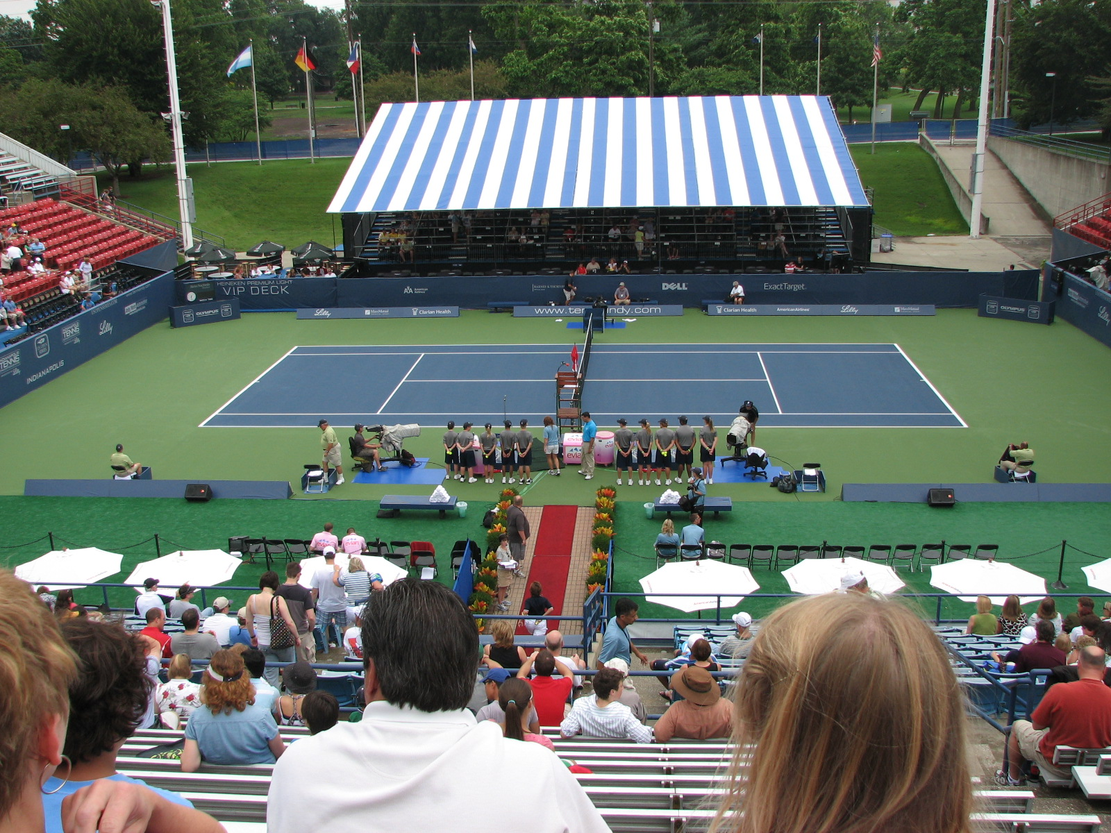 Indianapolis Tennis Center's main court during the 2009 Indianapolis Tennis Championships